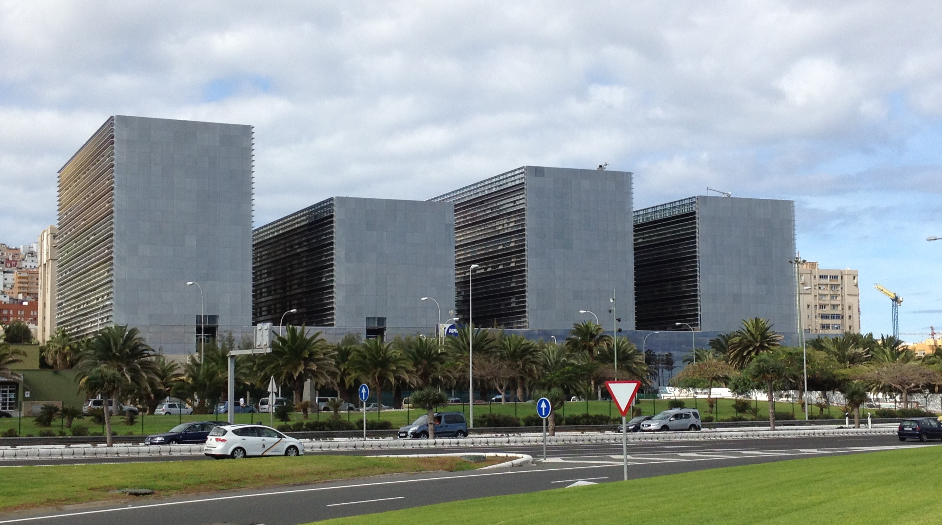 José Antonio Sosa, Magüi Gonzalez, Miguel Santiago, architects: Law Courts Complex in Las Palmas de Gran Canaria (2004-2010) [1]